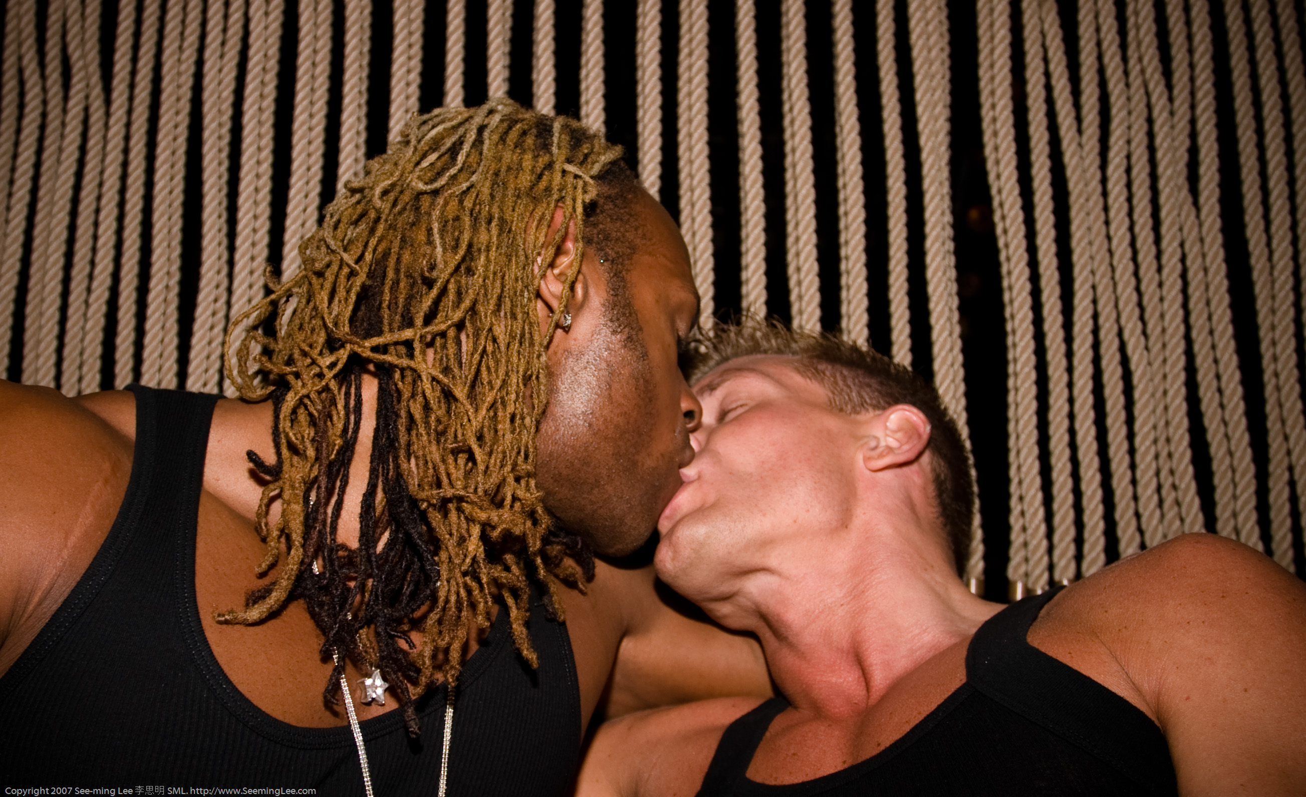 SML Flickr Tags: Gay SML Flickr Tags: Ideal Husbands SML Flickr Tags: Kiss SML Flickr Tags: Life SML Flickr Tags: Marlone Star SML Flickr Tags: Men SML Copyright Notice Copyright 2007 See-ming Lee 李思明 SML (SML Flickr / SML Pro Blog). All rights reserved.